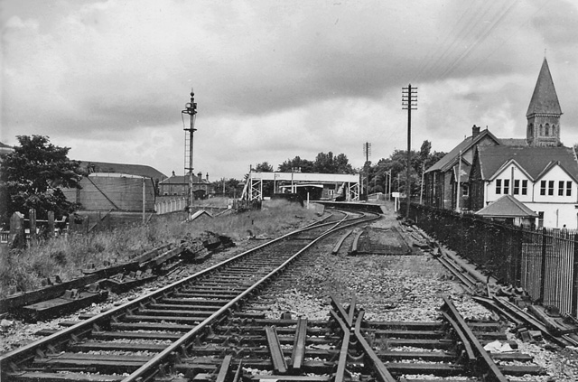 Blaina Station (remains). View NW, towards Brynmawr; ex-GW Newport - Aberbeeg - Brynmawr line. Station closed, along with passenger service Aberbeeg - Brynmawr 30/4/62, but coal continued to run down the valley until 5/7/76.